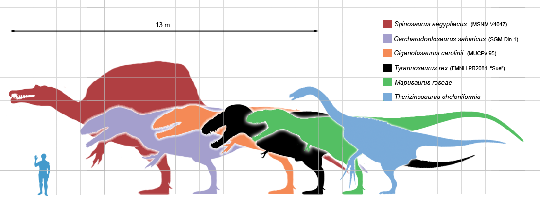 Adaptation of Largesttheropods.png to highlight Tyrannosaurus.